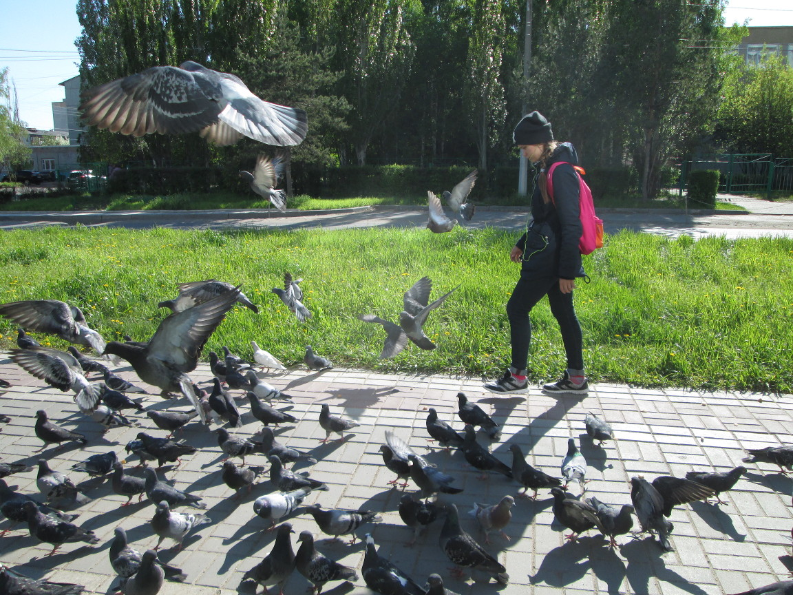 Flock of pigeons in Omsk (2016).